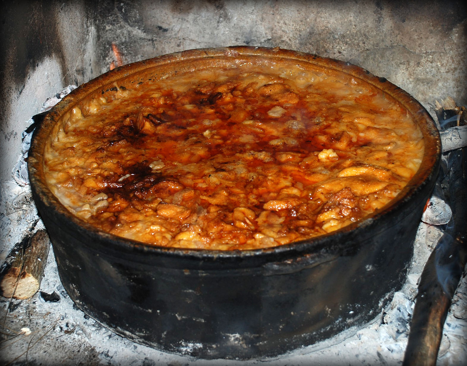 Rastrojo soup or toasted soup, typical dish from the province of Palencia (Castile and León). Its distinctive feature is the way to cook them, for more than four hours at the warmth until broth is consumed. This fact made these soups food led to field in the working days since not wept in transportation.